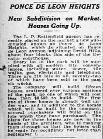 Ponce de Leon Heights article announcing opening